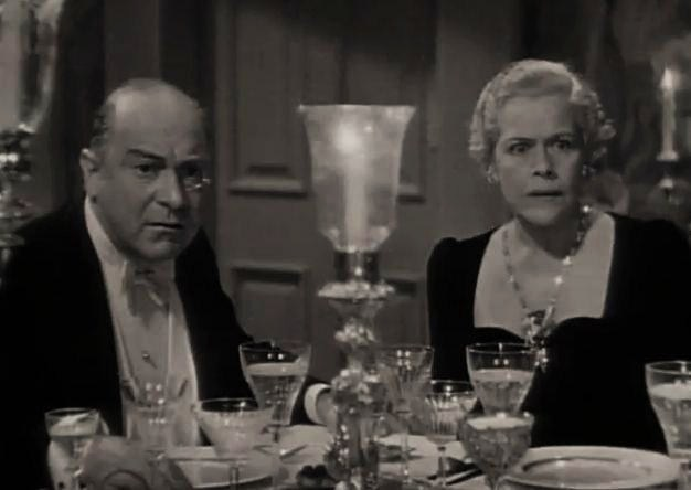 Eric Blore and Janet Beecher in The Lady Eve - trailer (cropped screenshot)